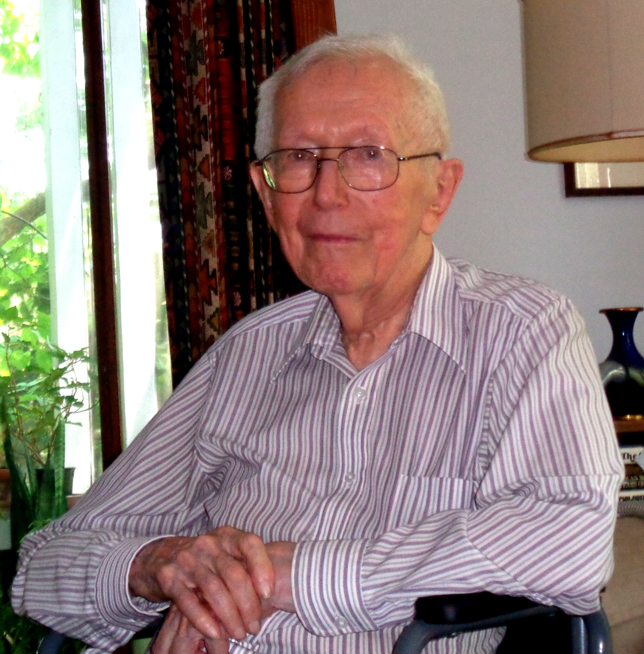 Bee researcher Charles Duncan Michener, at his home, 2015